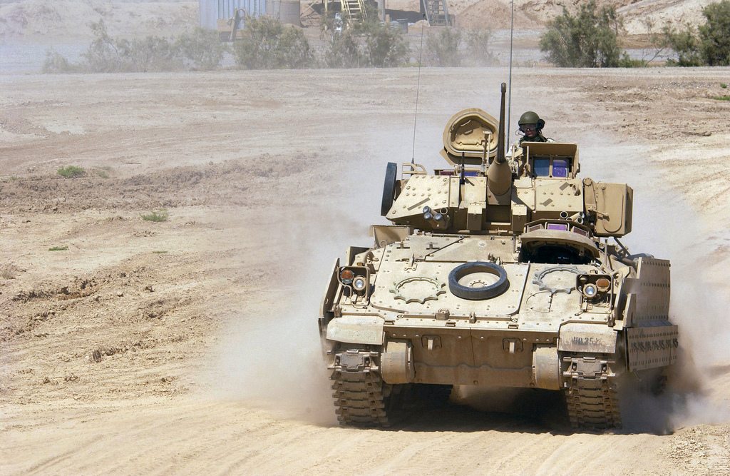 An M2A2 Bradley Fighting Vehicle crew from 3rd Brigade Troop Battalion, 3rd Infantry Division, drive back to Forward Operating Base Warhorse after a mission in near Baqubah, Iraq on May 27, 2005.